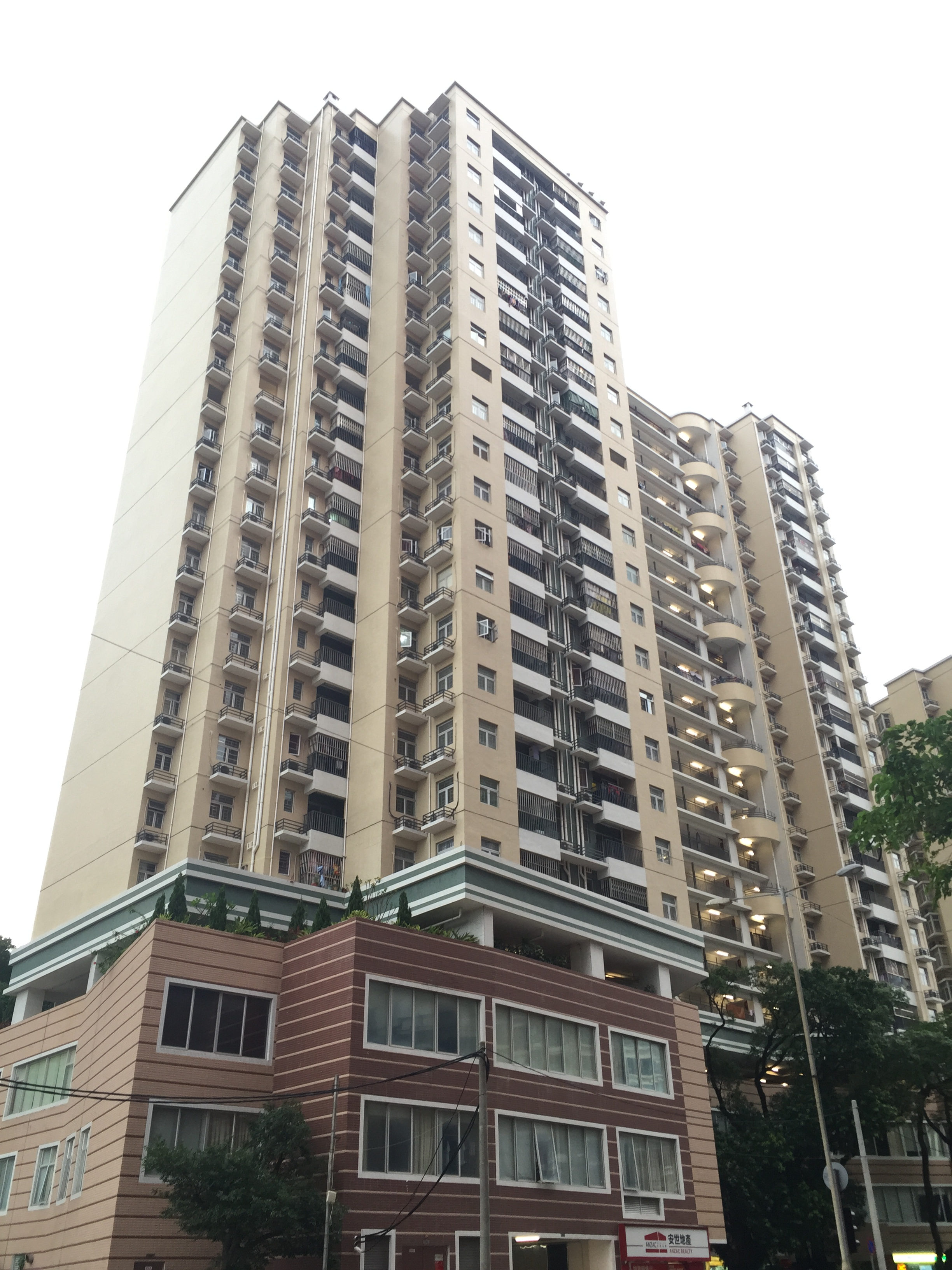 Edificio On Son